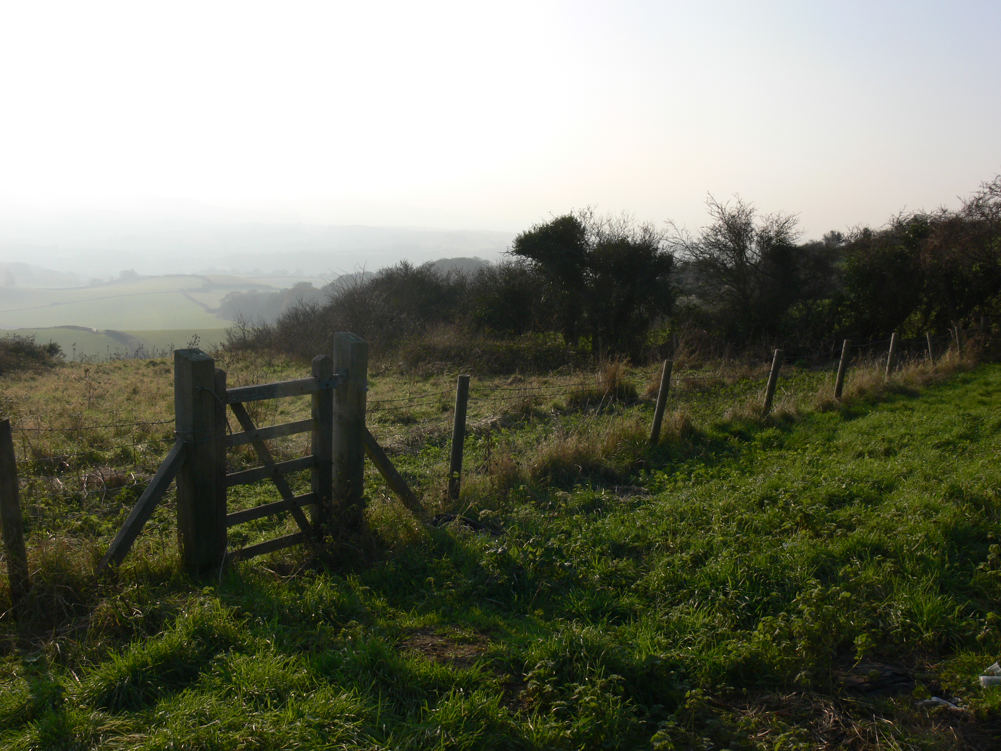 View from Brading Down, Isle of Wight, England, showing a misty landscape seen across a wooden gate and wire fence.